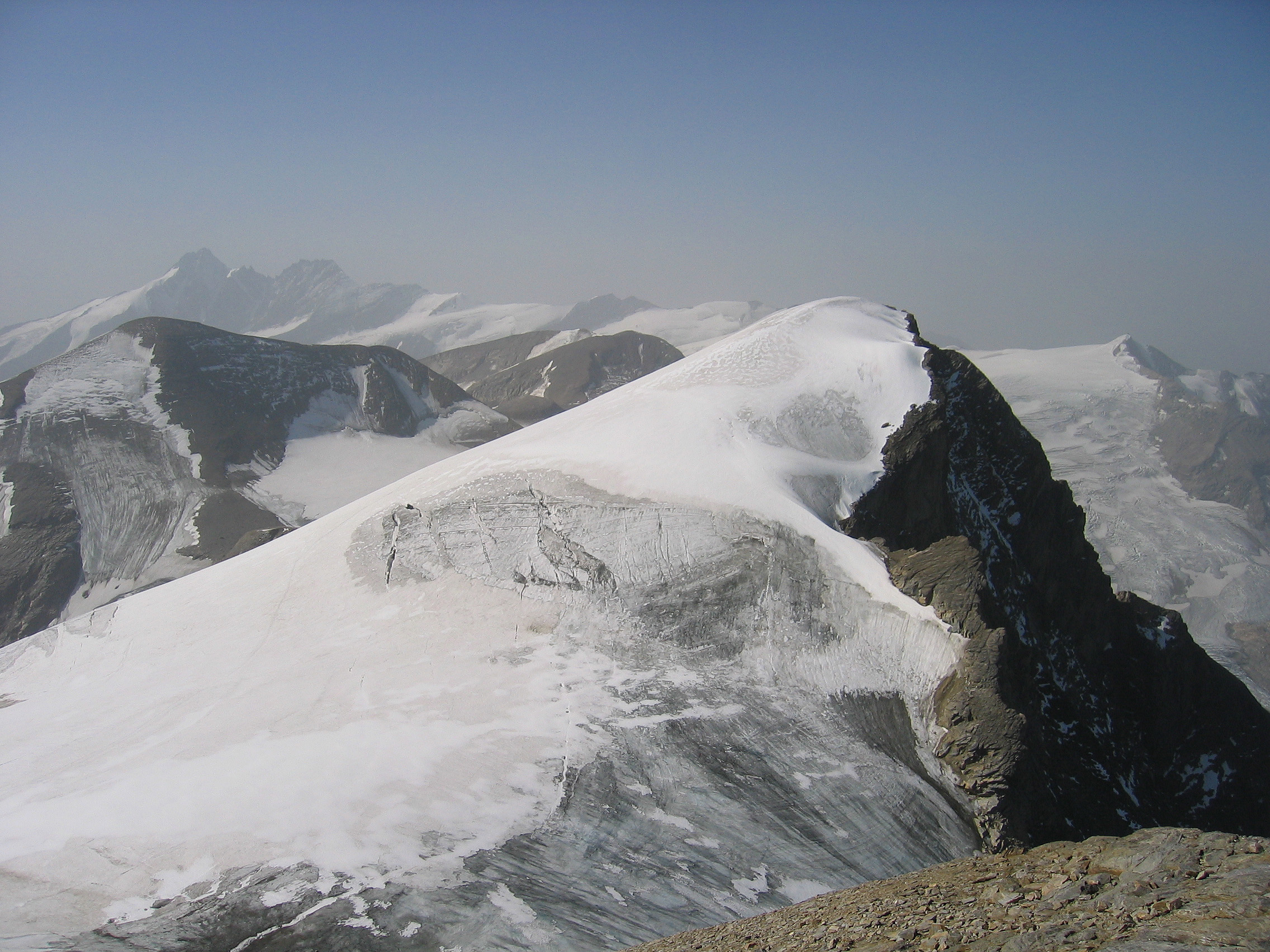 Glockerin as seen from Hinterer Bratschenkopf